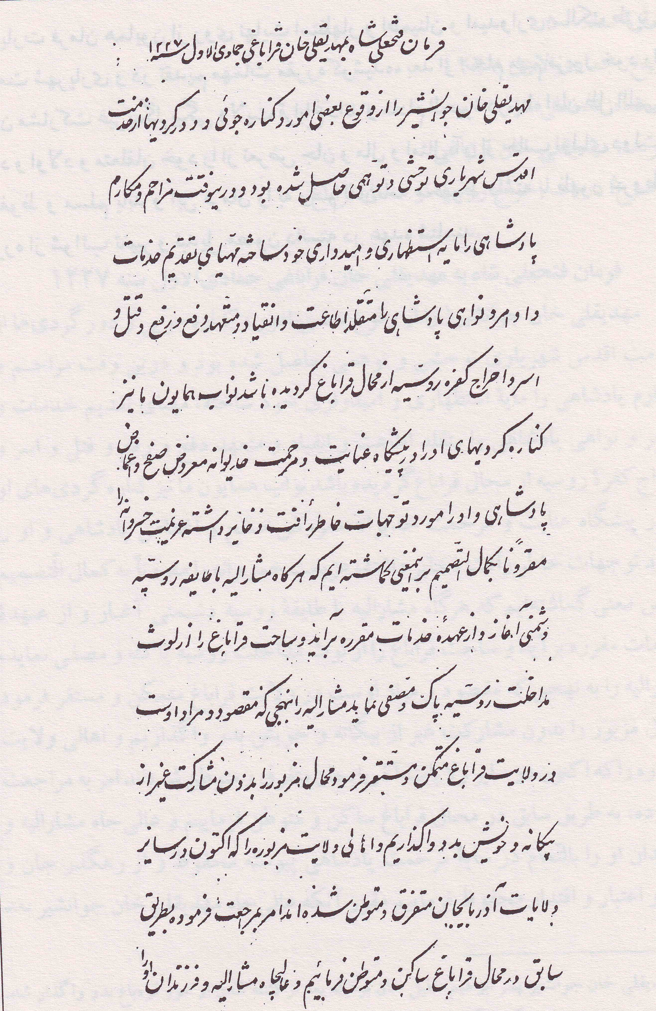 Taken from pg 260 of Iranian forigen office(Bureau for Publication of Documents), "Some documents of relations between Caucasia and Iran". Sample from the manuscript of Fat?h Ali Shah Qajar to Mehdi Gholi Khan Javanshir (son of Ibrahim-Khalil Panah Khan Javanshir)